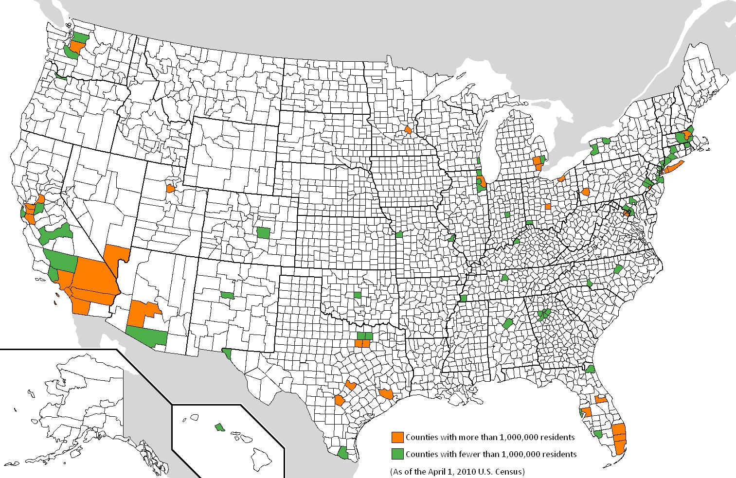 A map of the counties of the United States. The 100 most populous counties are highlighted, with those counties having more than one million residents in gold, and those counties having fewer than one million residents (but still in the top 100) in green, as of the April 1, 2010 United States census.